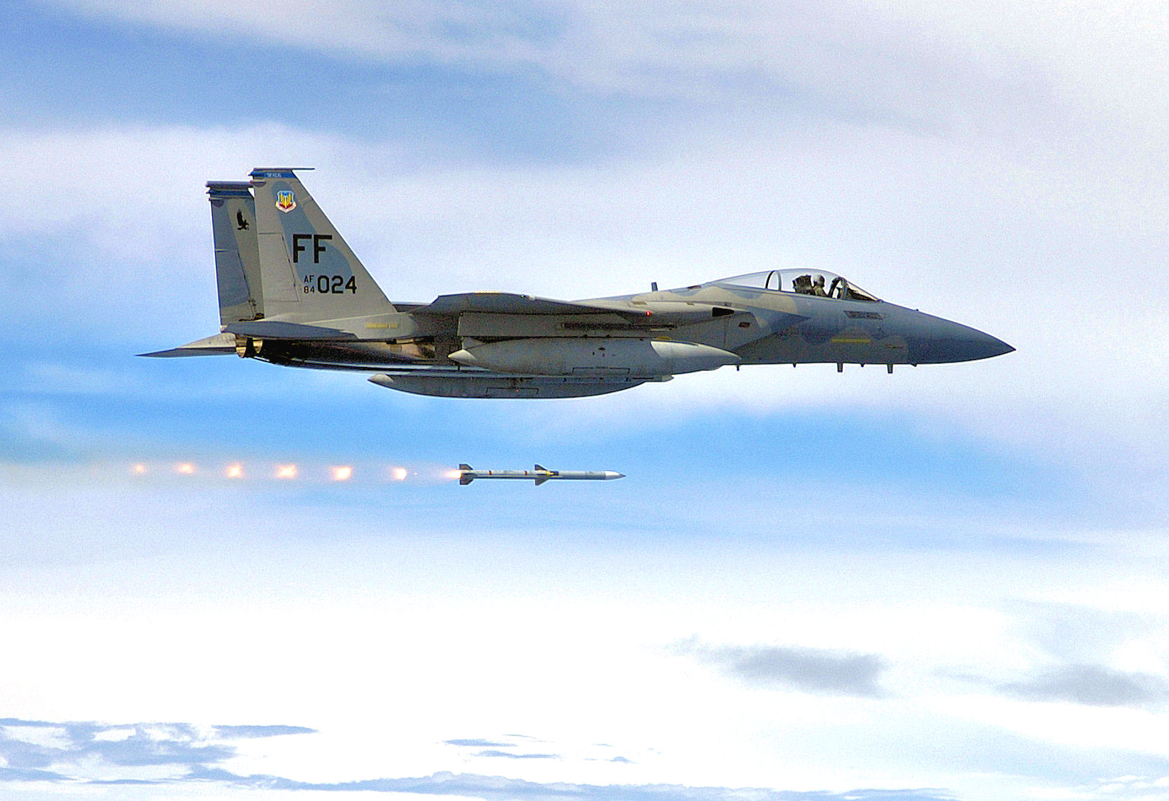 A US Air Force (USAF) F-15C Eagle aircraft assigned to the 94th Fighter Squadron (FS), 1st Fighter Wing (FW), launches an AIM-120 Advanced Medium Range Air-to-Air Missile (AMRAAM) during Exercise COMBAT ARCHER, a Air-to-Air Weapons System Evaluation Program (WSEP) hosted by the 83rd Fighter Weapons Squadron located at Tyndall Air Force Base (AFB) Florida (FL). Photographer's Name: TSGT MICHAEL AMMONS, USAFLocation: TYNDALL AIR FORCE BASE